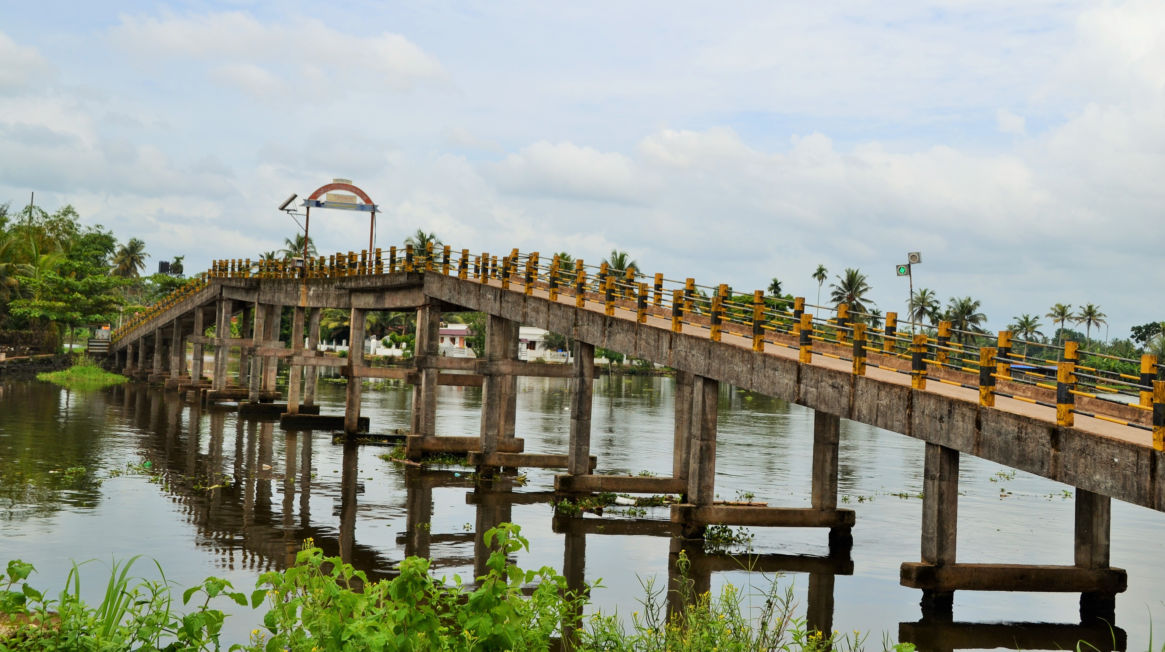 This bridge connect's Pullinkunnu area to the main Land Which is well connected to Changanassery and Alapuzzha towns.